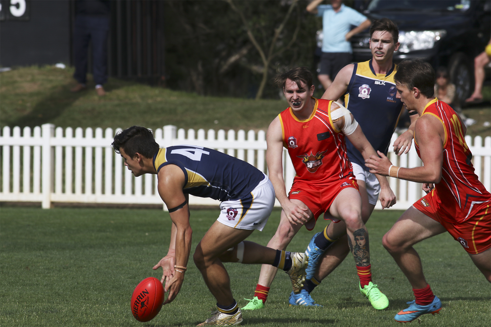 Australian rules footballer picks up the ball on the run/